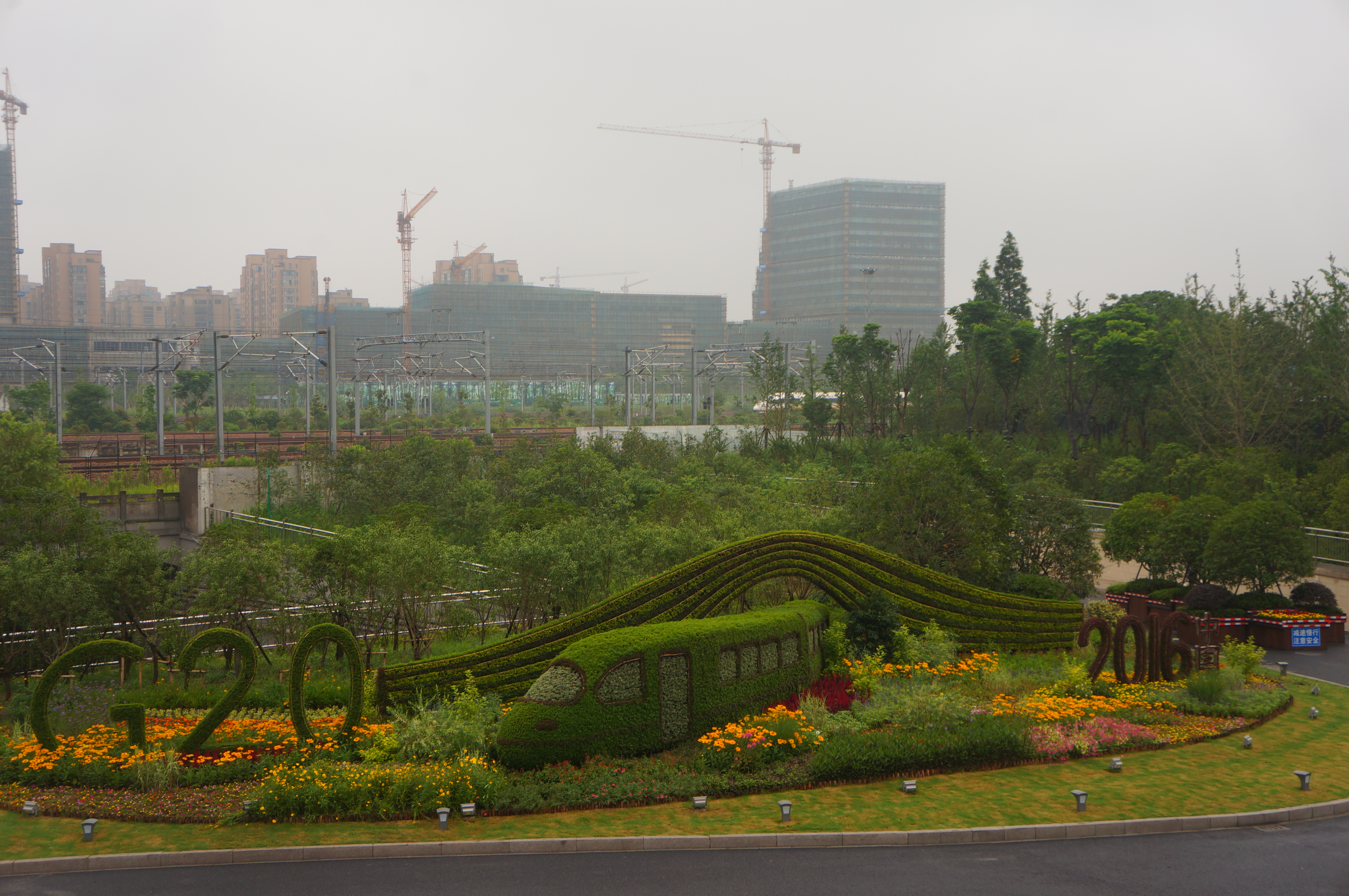 201606 Miniscaping for G20 at Hangzhoudong Station